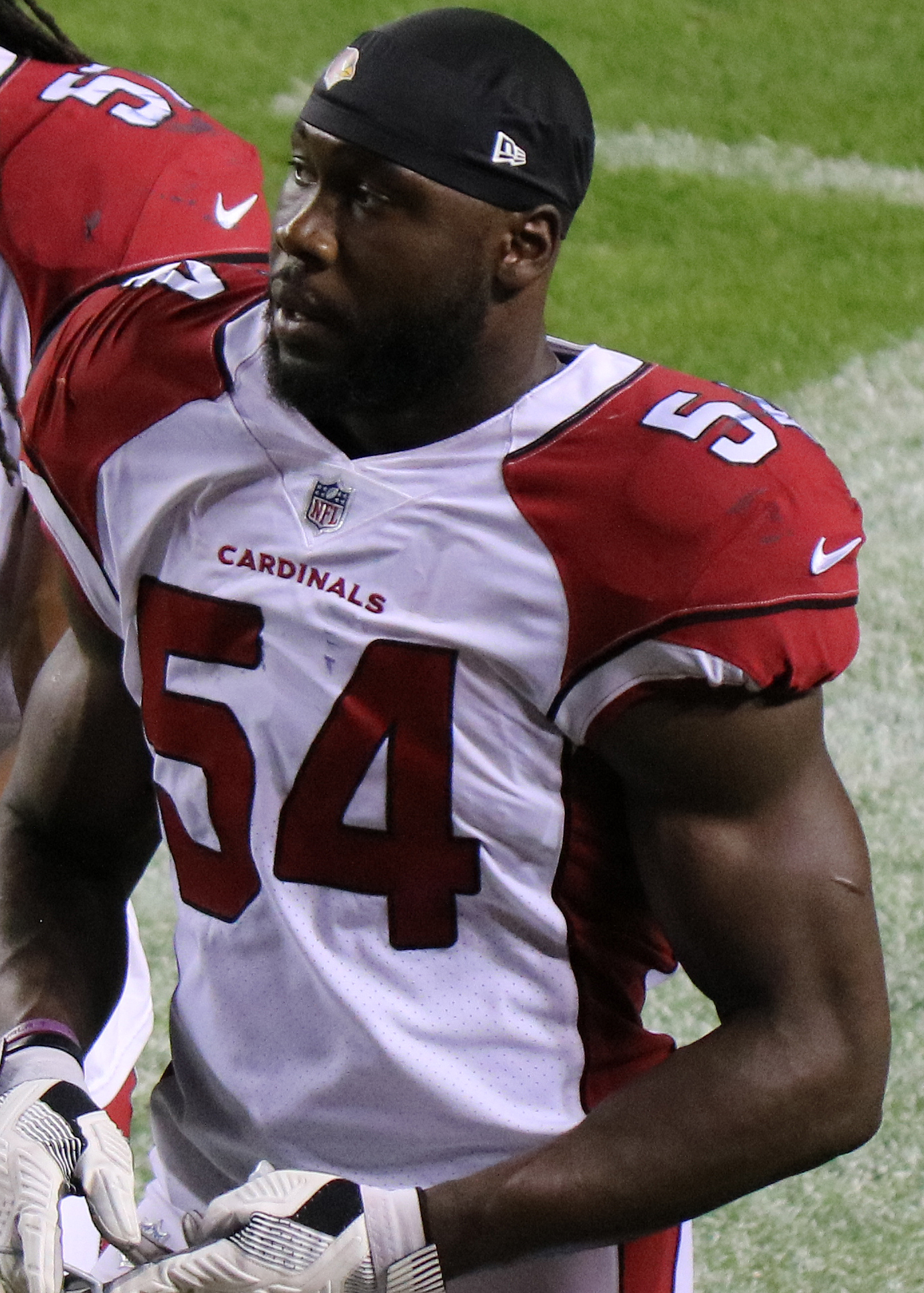 Alex Bazzie, a player on the National Football League.